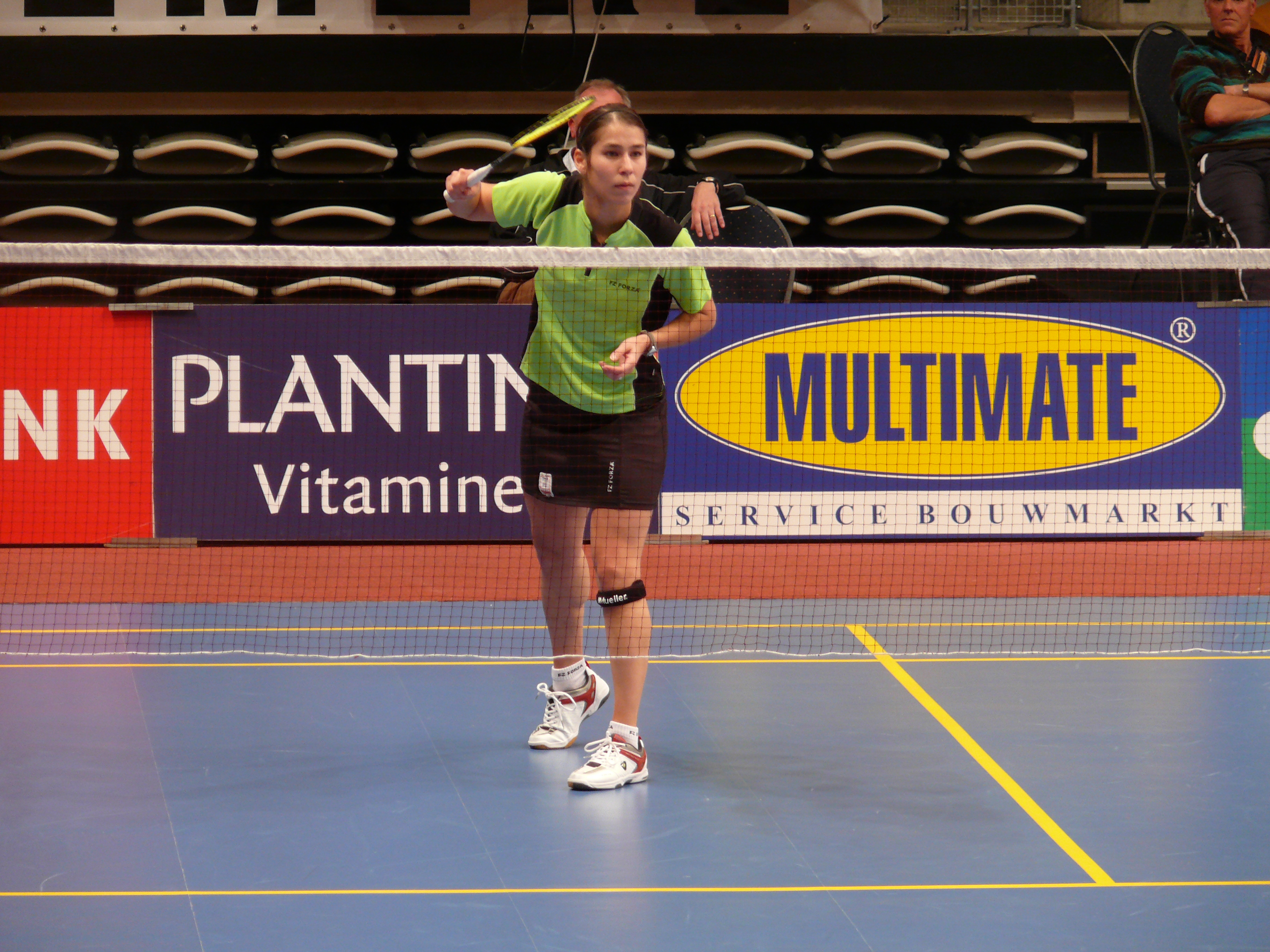 Judith Meulendijks (the Netherlands)